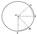 Central angles